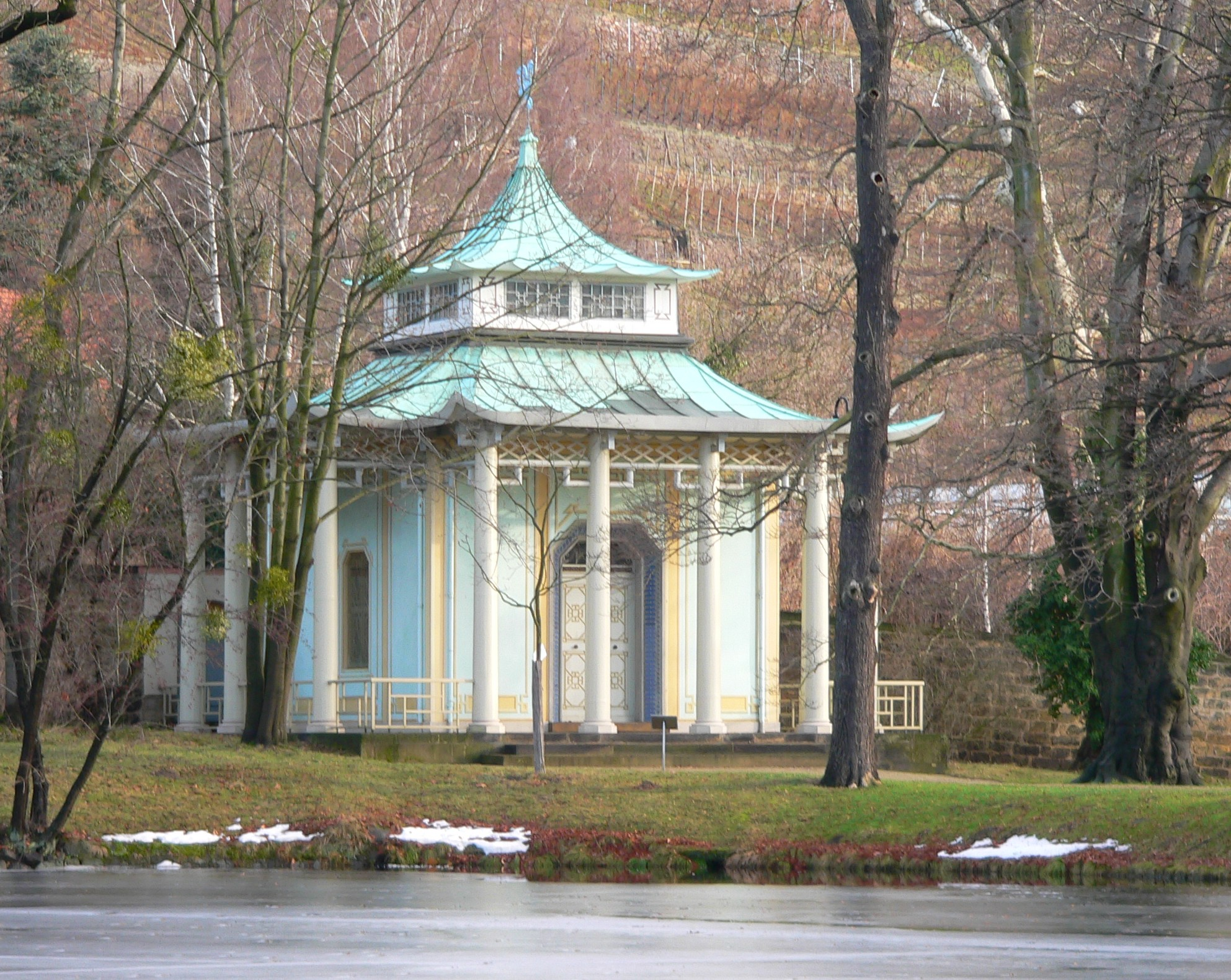 Chinese pavilion in the park of Pillnitz Castle